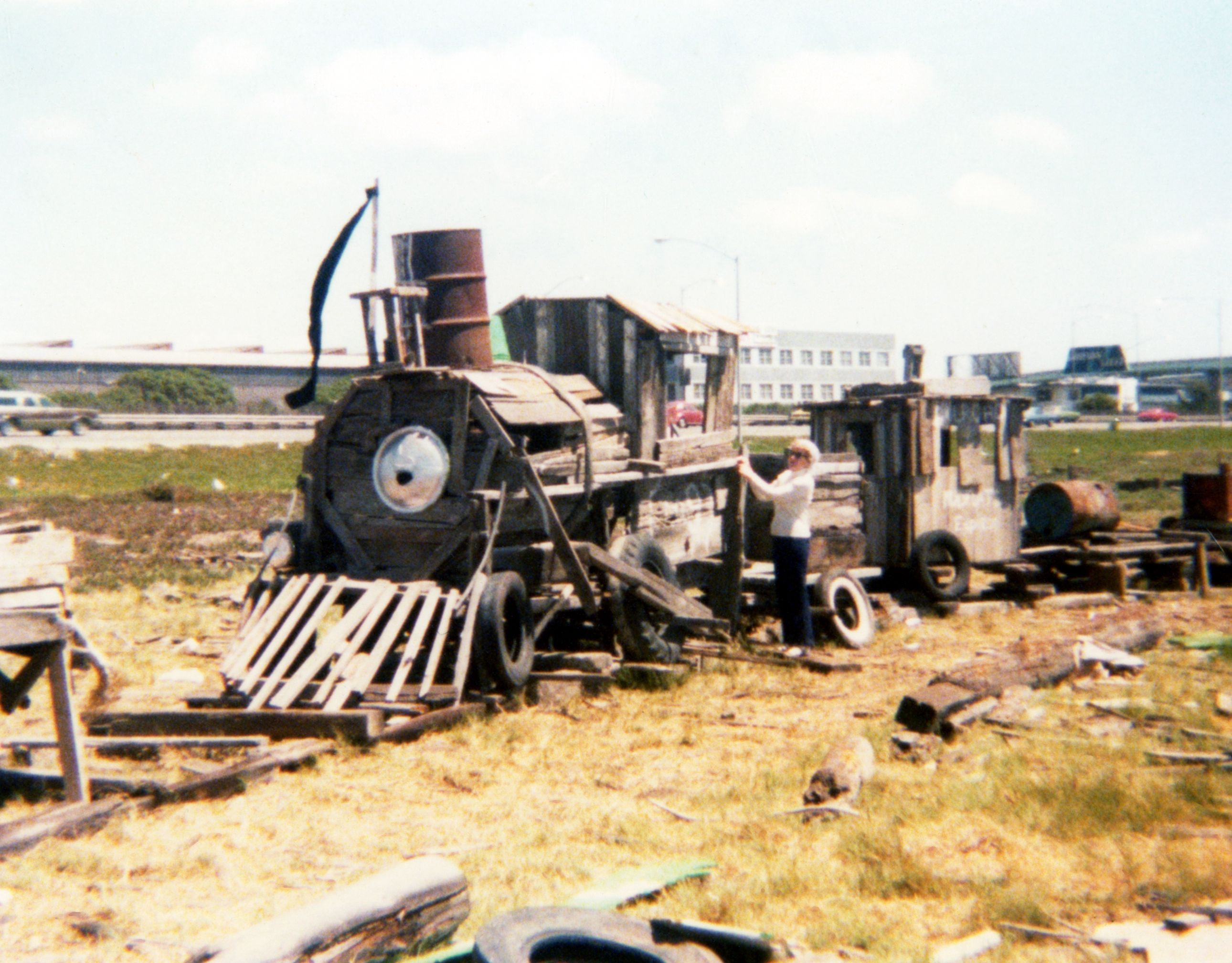 Woman poses with a driftwood sculpture near or in Emeryville at the edge of the San Francisco Bay, in the form of a railroad locomotive, 1977. Other information Photo by George Garrigues.